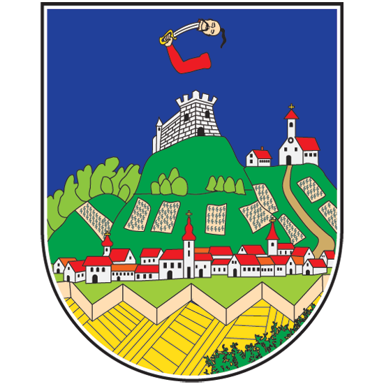 Lesser coat of arms of Vršac